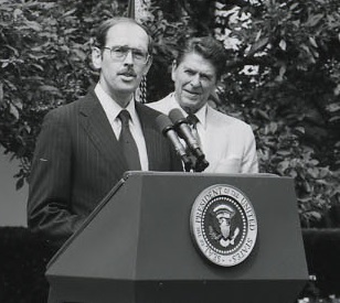 M. Peter McPherson was director Administrator of the United States Agency for International Development in 1981. At this ceremony in the White House Rose Garden he returned a check for $28 million to treasury. At this ceremony he said: “Thank you, Mr. President. It's certainly very nice to be here. In keeping with your commitment to the American people to reduce waste and inefficiency, I'm happy to announce today our initial results at the Agency for International Development. These results will save millions of dollars for the American taxpayer. We've identified $28 million that we do not need to spend. These cuts come from projects from around the world. Some are from money which is being returned because local conditions have changed, some because of management problems, and some because of insufficient local government support. Returning this money demonstrates that we will not hesitate to make changes in AID programs whenever they fall short of our expectations. Our reviews are not yet finished, but already we know there'll be millions of dollars additionally that we will return to the Treasury. This effort is strongly supported by Secretary Haig, as evidenced by his presence here today. We hope to better serve you, Mr. President, and the American public by this effort. Mr. President, I'd like to present to you our check for $28 million to be returned to the U.S. Treasury.” Remarks on Receiving Unspent Fiscal Year 1981 Funds From the Agency for International Development August 4, 1981. Reagan Library archives.